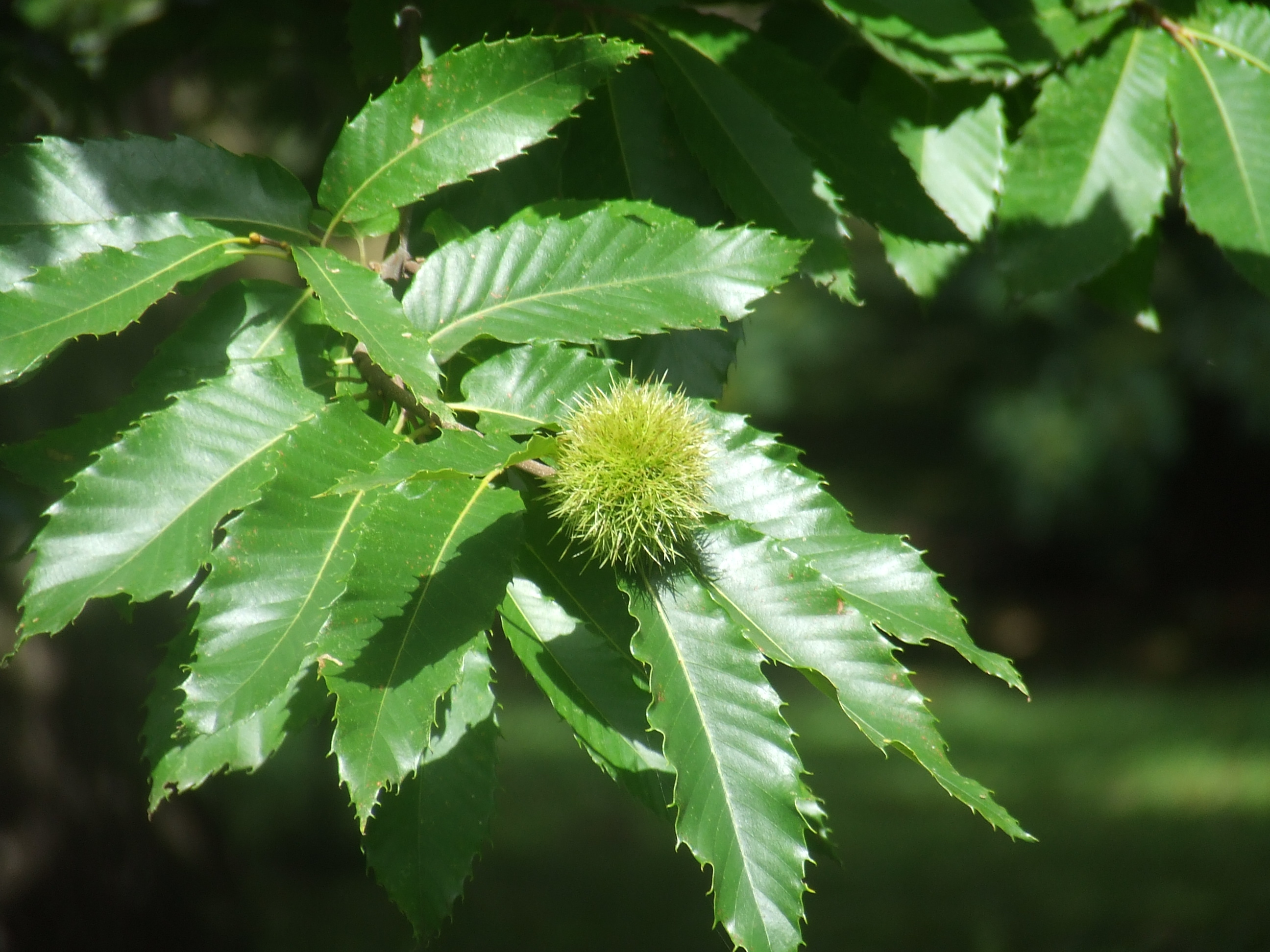 Castanea sativa leaves and immature fruit